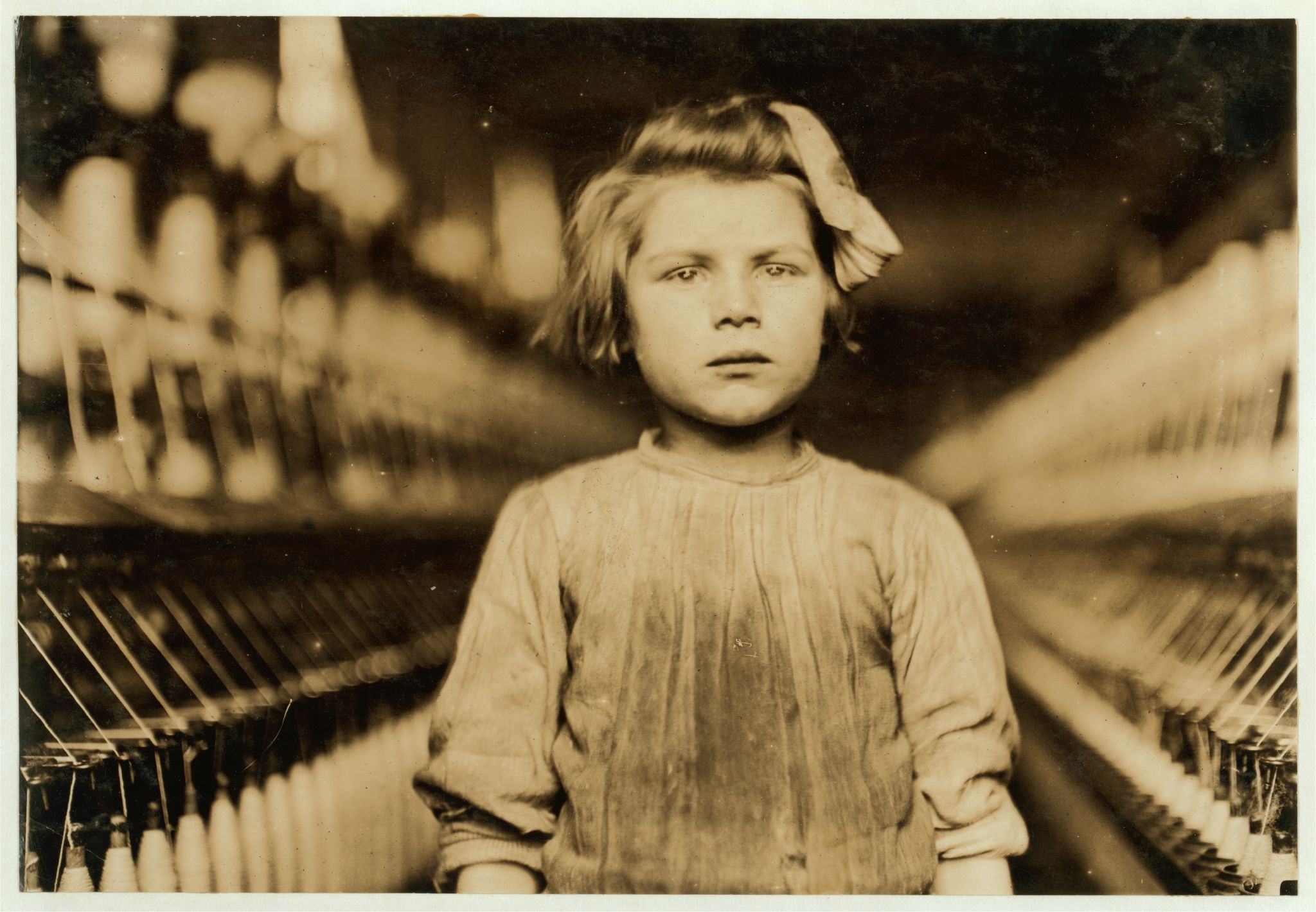 A little spinner in Globe Cotton Mill. Augusta, Ga. The overseer admitted she was regularly employed. Location: Augusta, Georgia. CALL NUMBER: LOT 7479, v. 1, no. 0490[P&P] LC-H5- 490 Check for an online group record (may link to related items) REPRODUCTION NUMBER: LC-DIG-nclc-01583 (color digital file from b&w original print) LC-DIG-nclc-05395 (b&w digital file from original glass negative) RIGHTS INFORMATION: No known restrictions on publication. MEDIUM: 1 photographic print. 1 negative : glass ; 5 x 7 in. CREATED/PUBLISHED: 1909 January. CREATOR: Hine, Lewis Wickes, 1874-1940, photographer. NOTES: Title from NCLC caption card. Attribution to Hine based on provenance. In album: Mills. Hine no. 0490. SUBJECTS: Girls.Textile mill workers. Cotton industry. Spinning machinery. United States--Georgia--Augusta. FORMAT:Photographic prints. Glass negatives. PART OF: Photographs from the records of the National Child Labor Committee (U.S.) REPOSITORY: Library of Congress Prints and Photographs Division Washington, D.C. 20540 USA DIGITAL ID: (color digital file from b&w original print) nclc 01583 [1] (b&w digital file from original glass negative) nclc 05395 [2] CONTROL #: ncl2004001390/PP